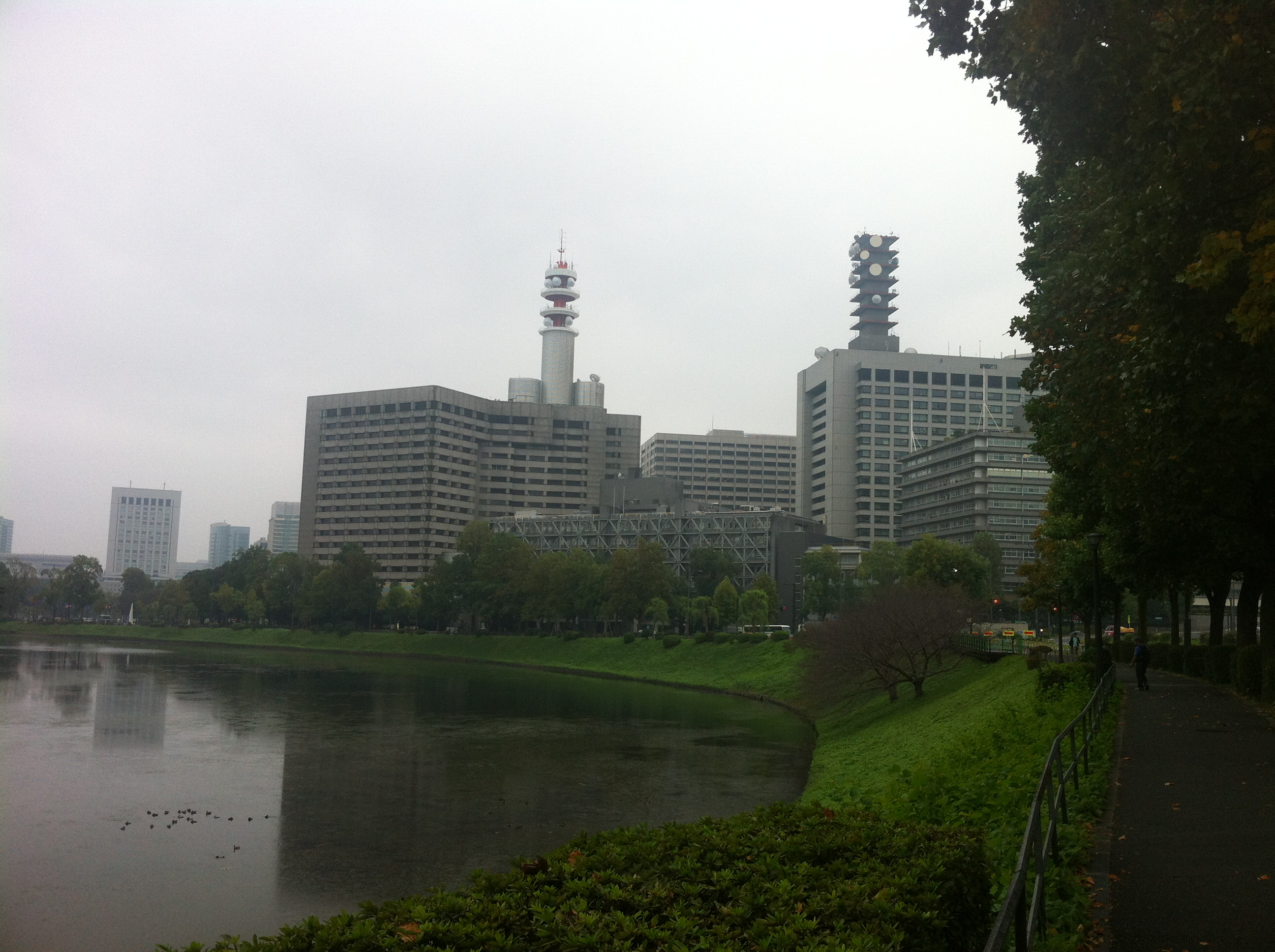 警視庁本庁舎 Tokyo Metropolitan Police headquarters